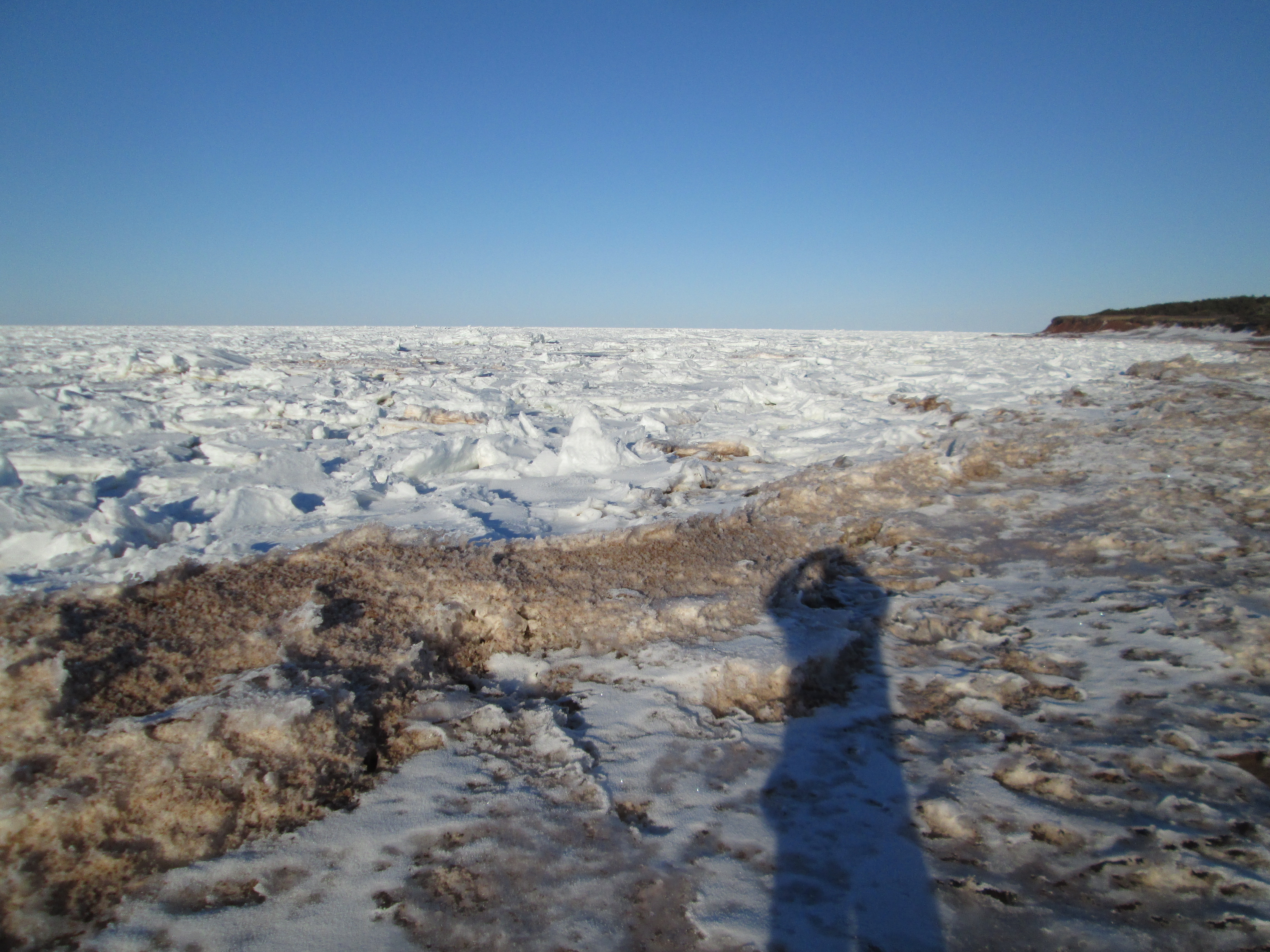 March 27, 2018. PEI National Park, Robinsons Island